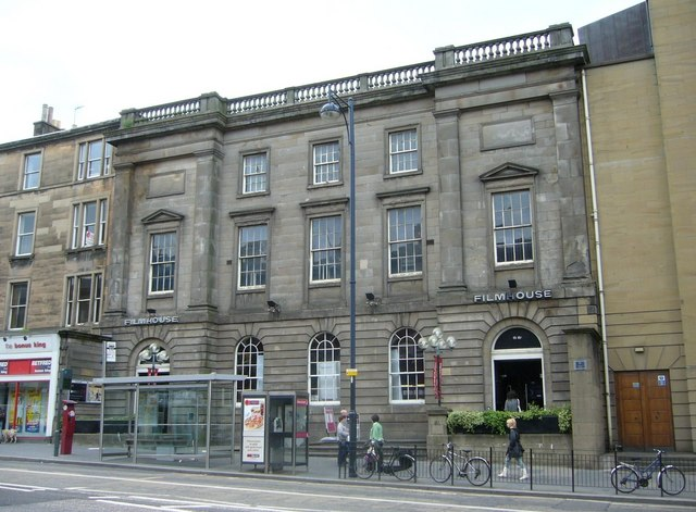 Edinburgh Film House One of the hubs of the Edinburgh International Film Festival, the Film House shows foreign films all the year round. The building was formerly the Lothian Road Church, designed by William Burn and built in 1830.